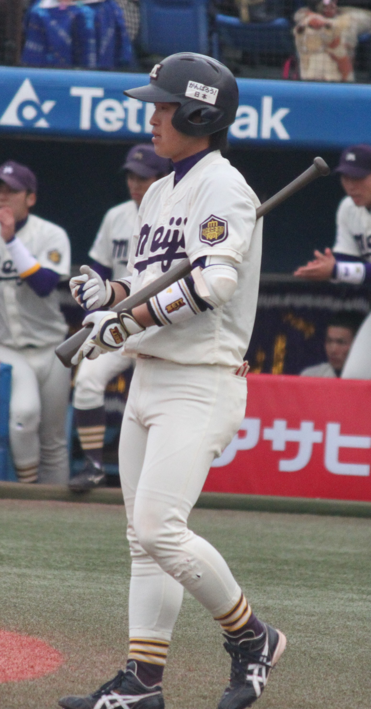 Takashi Uemoto, infielder of the Meiji University Baseball Club, at Meiji Jingu Stadium.